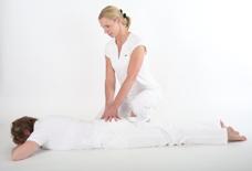 LNB SPP Glutaeus Maximus OS Ilium